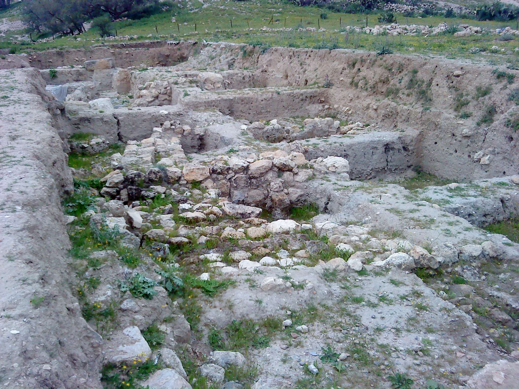 Tel Tsafit, Israel.